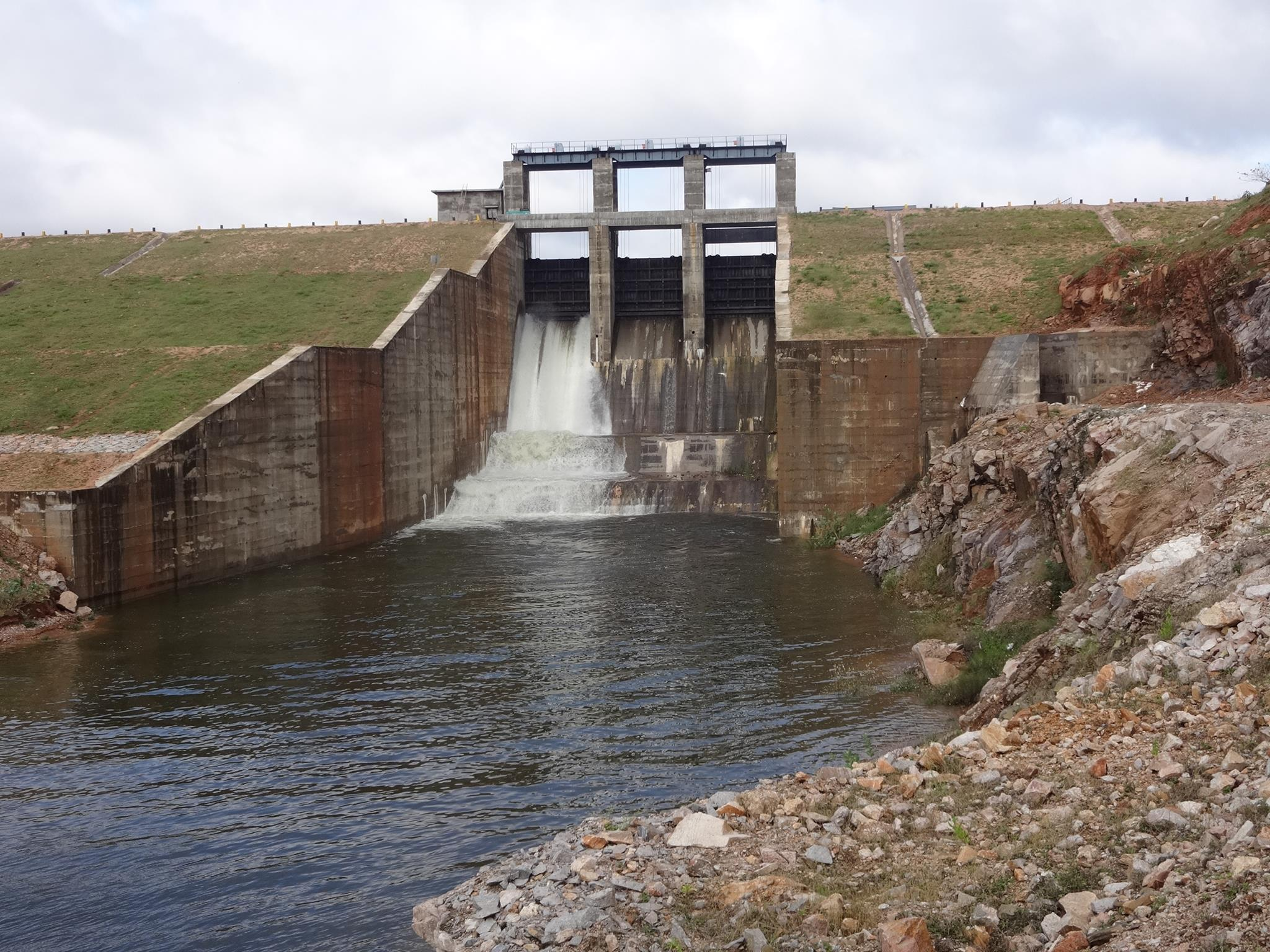 mallanna gandi photo